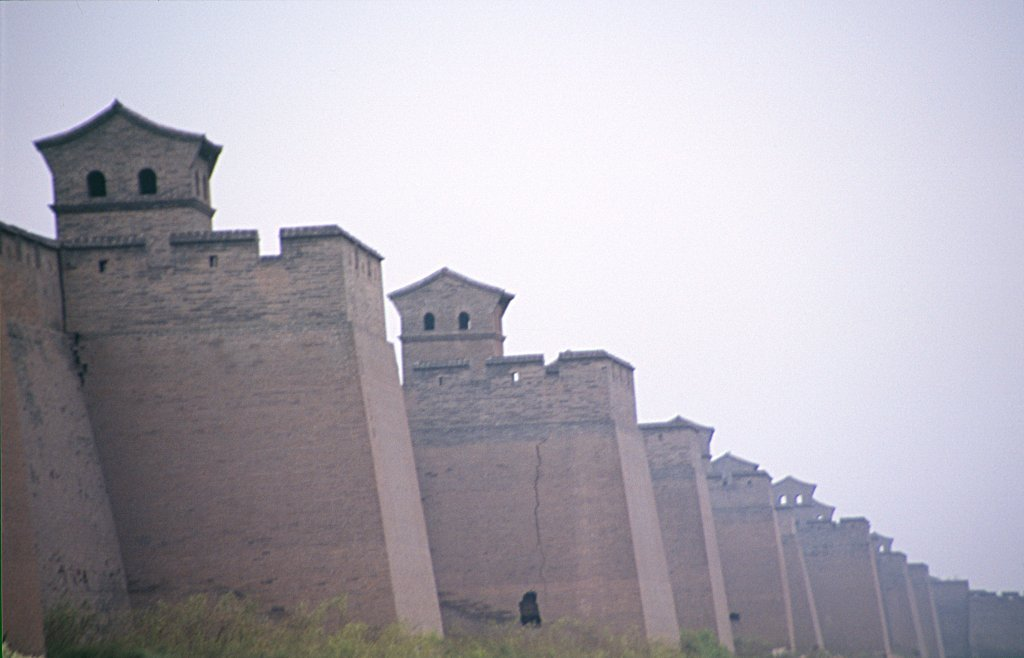 Old city wall of Pingyao (China). Slide taken, scanned and post-processed by author with The GIMP.